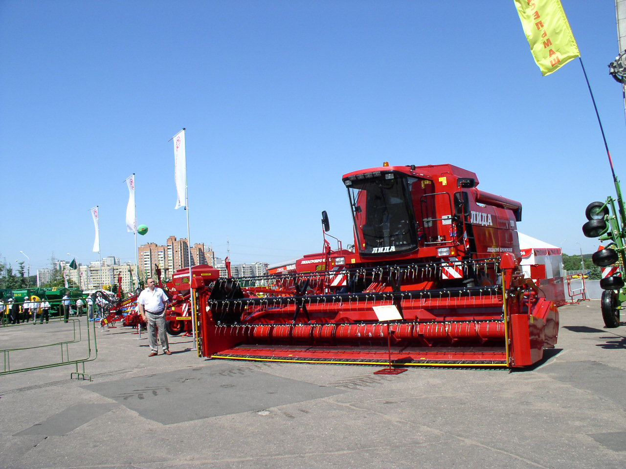 Lidagroprommash Lida-1300 combine harvester. Belagro 2007, Agriculture Expo, Minsk, Belarus.